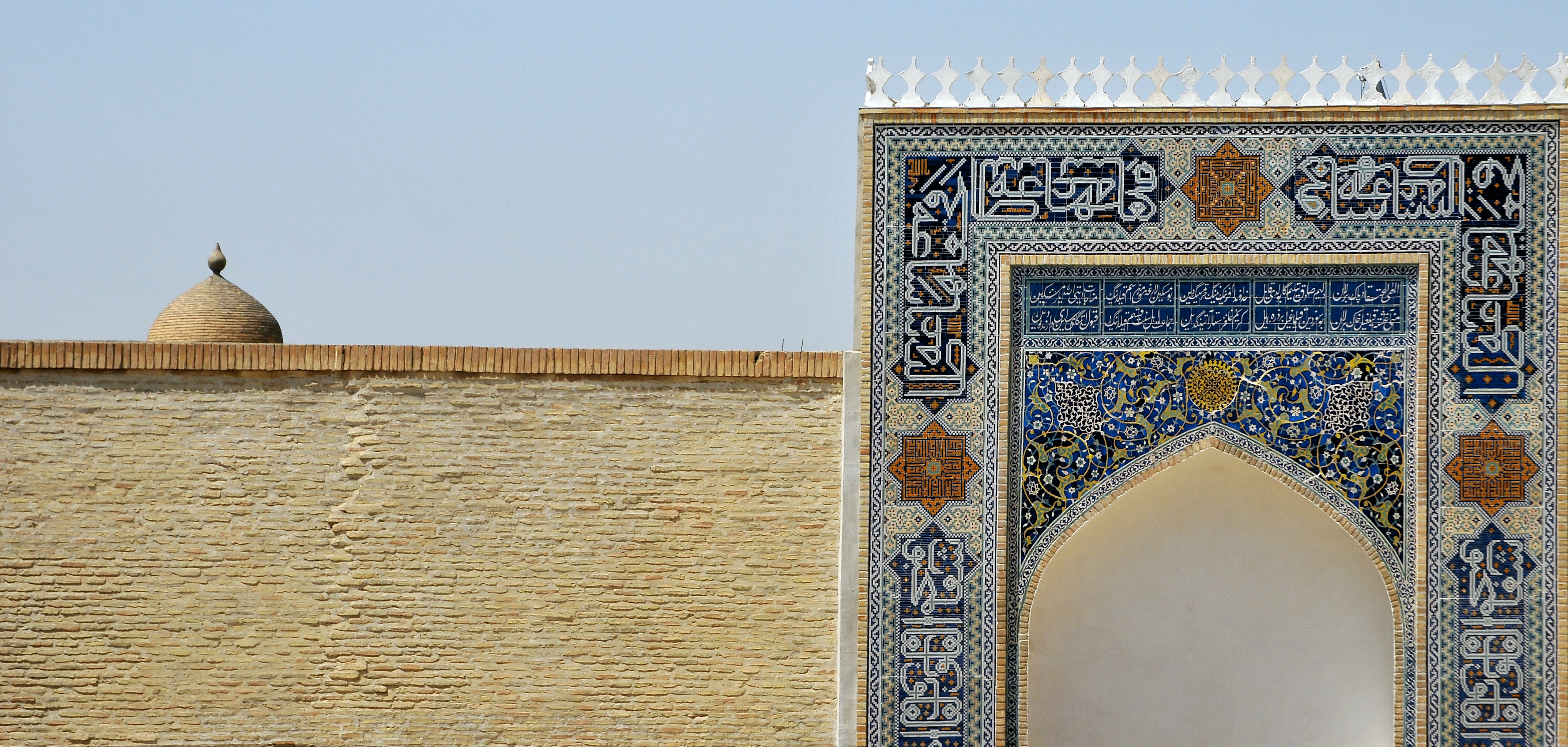 Detail of the hearing courtyard at the citadel [Ark]. Bukhara, Uzbekistan